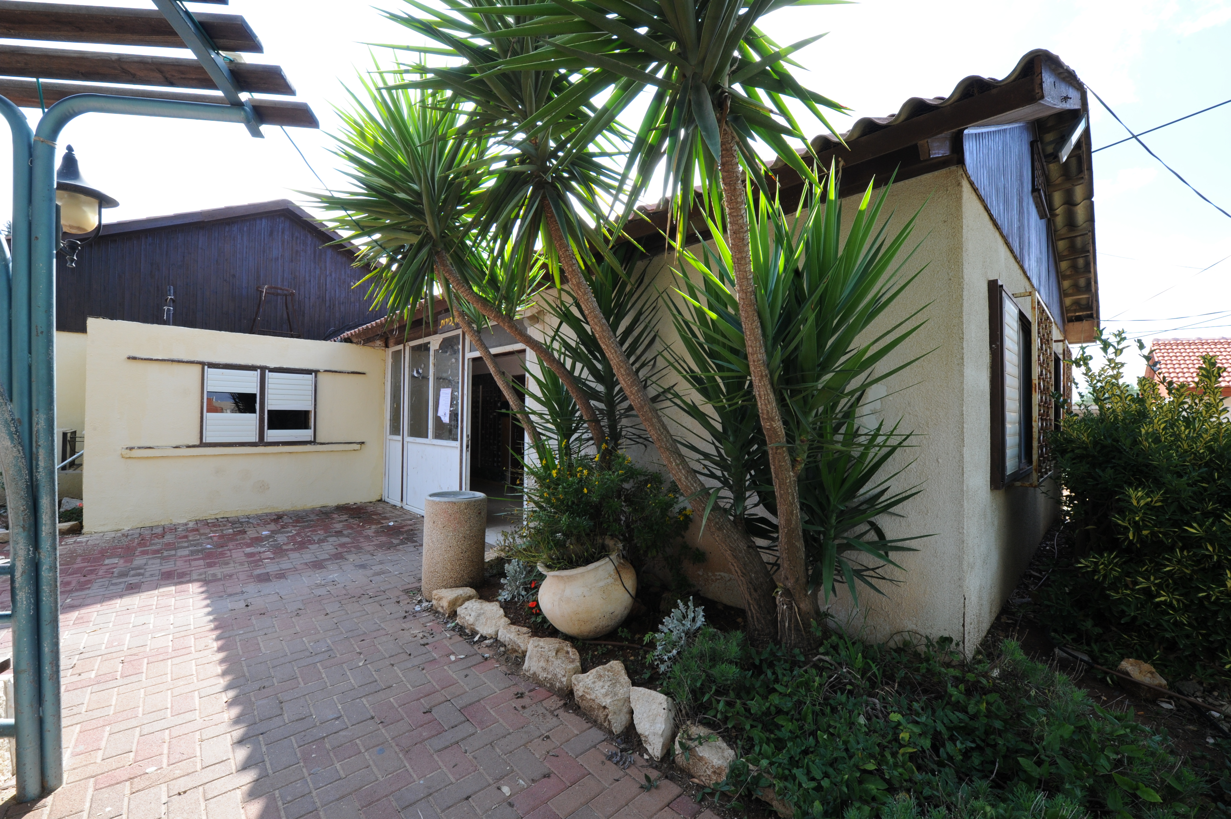 Ateret community center